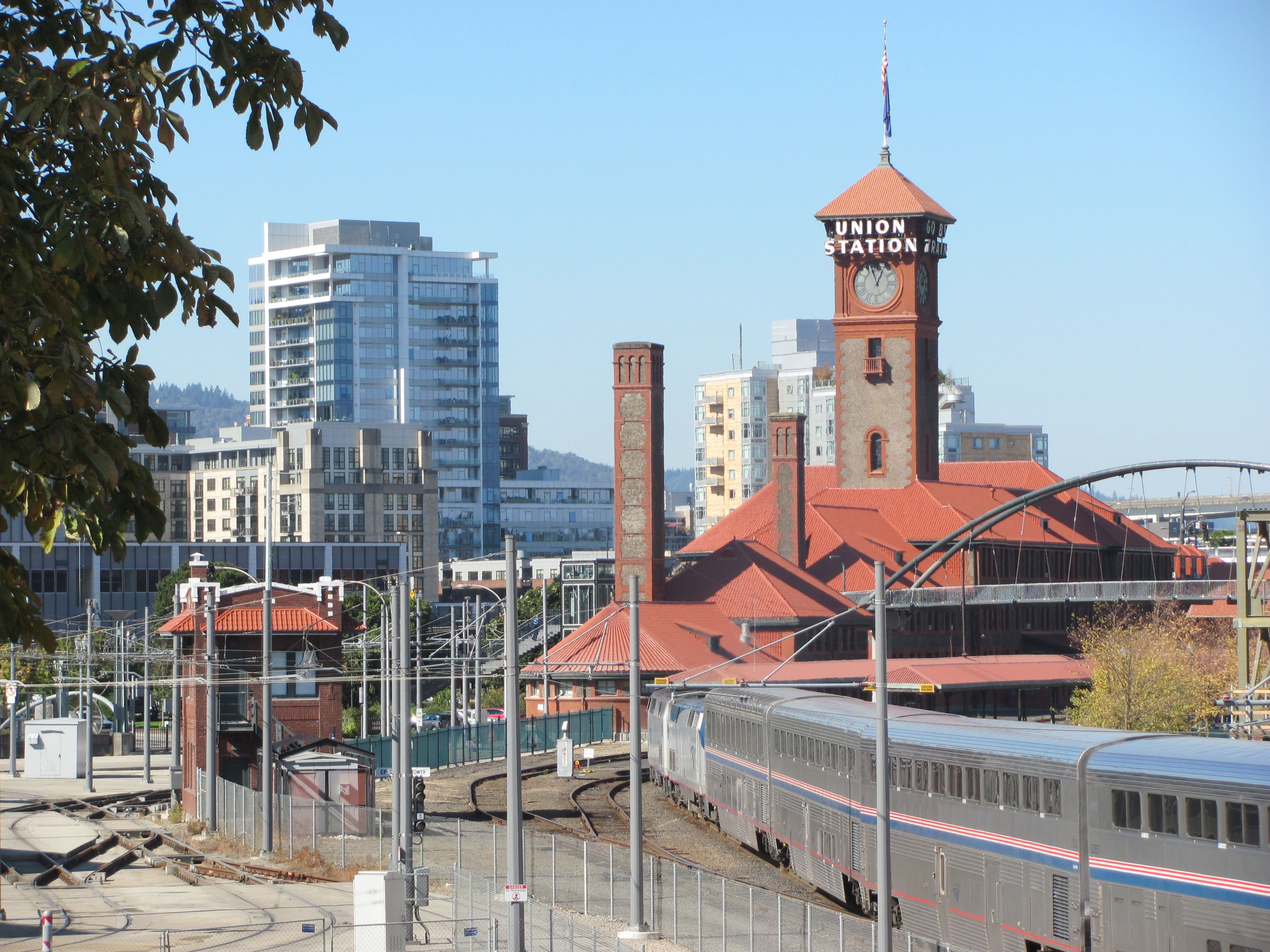 Empire Builder shunting in front of Union Station, Portland, Oregon